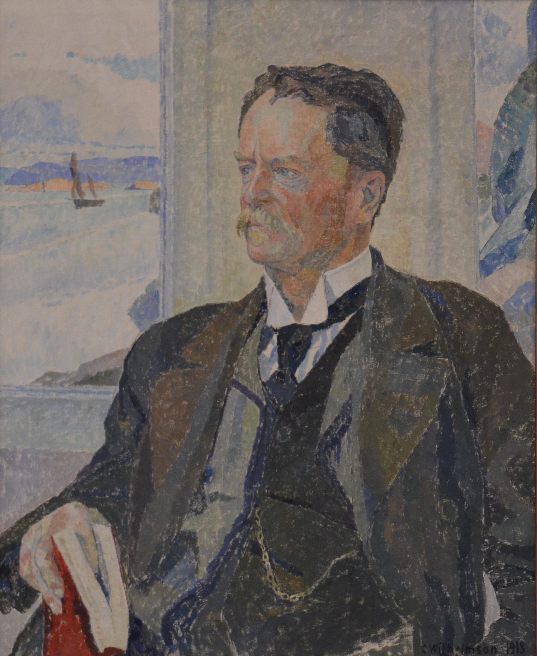 Portrait of Swedish scientist Hjalmar Théel